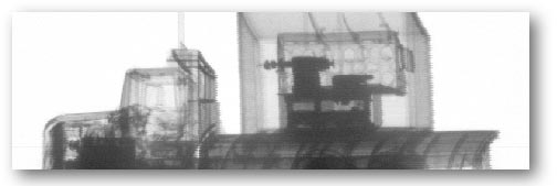 Gamma-ray image of a truck taken with Mobile VACIS system. It is used for example by the Container Security Initiative of the United States Department of Homeland Security. See manufacturer at for hardware details.